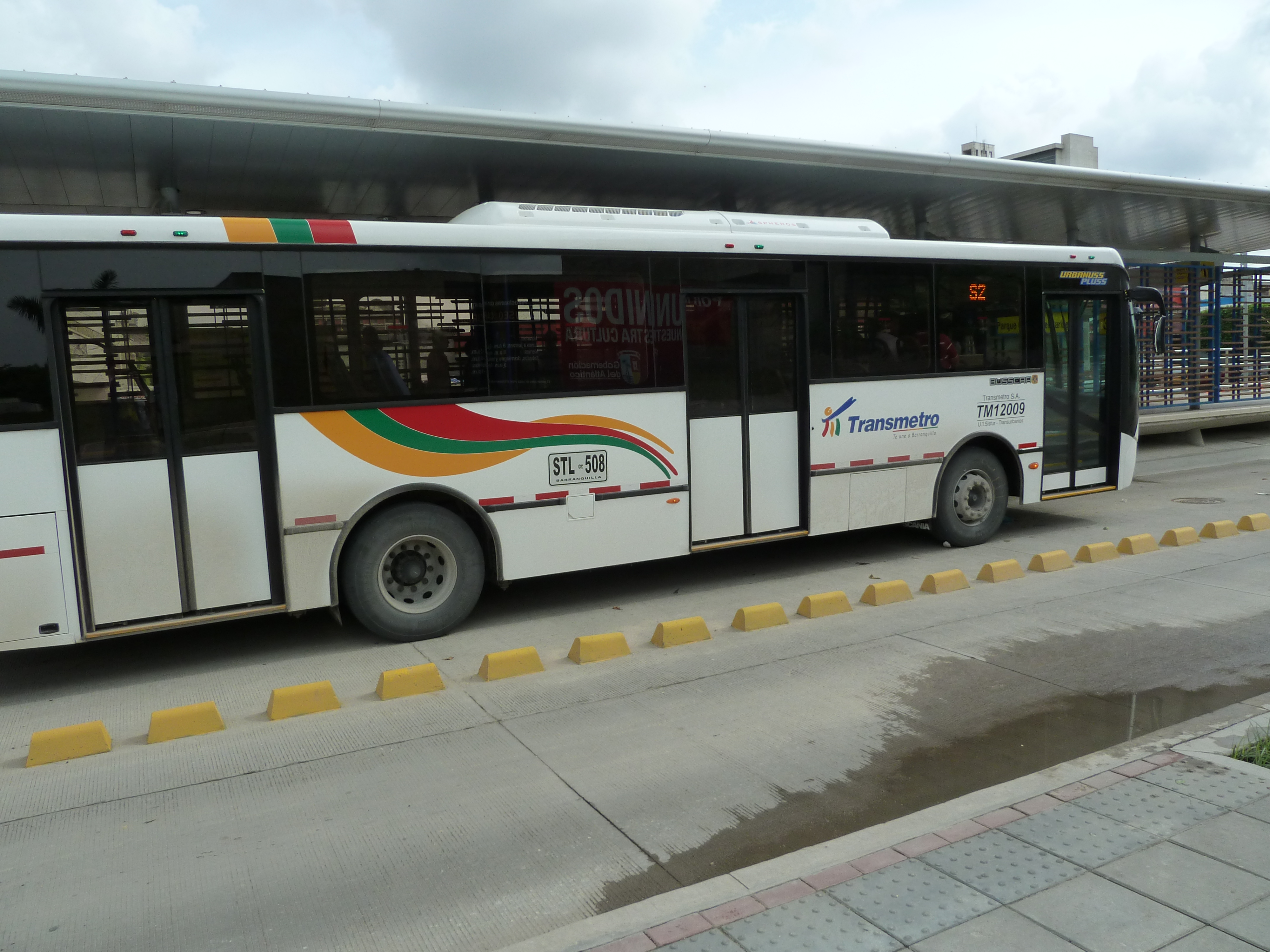 A Transmetro bus of the line S2 at the bus stop 'Parque Cultural del Caribe'.